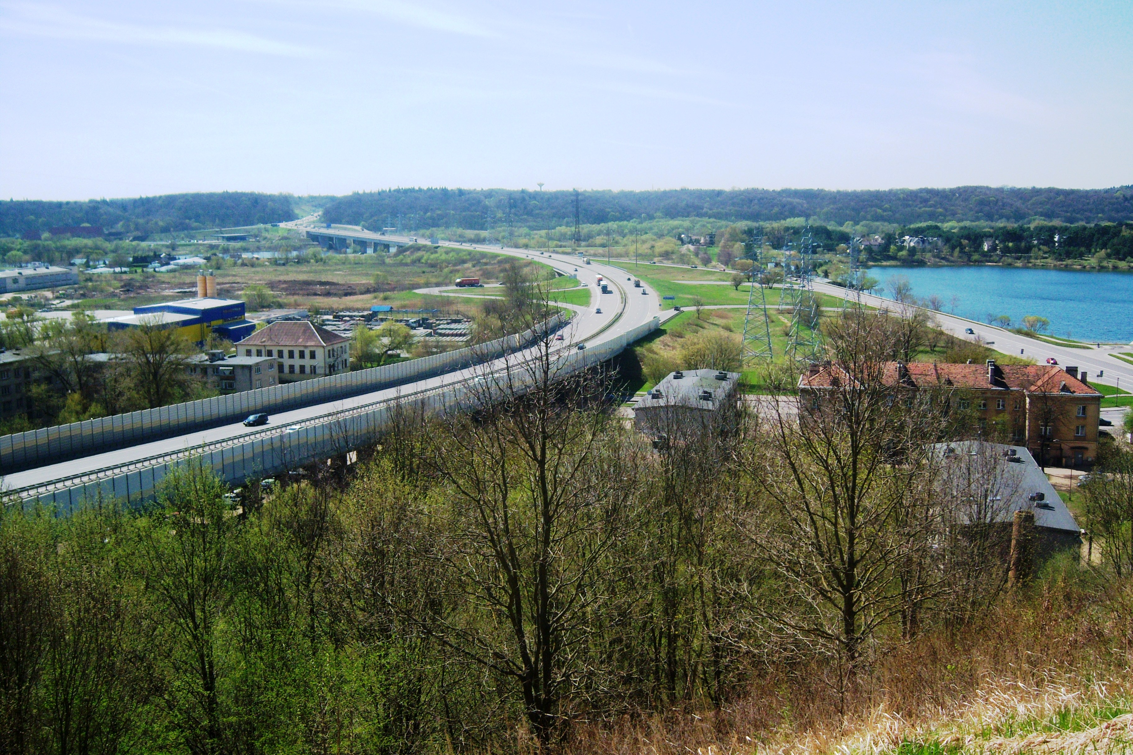 Via Baltica highway. Noise pollution barriers. Kaunas. Lithuania